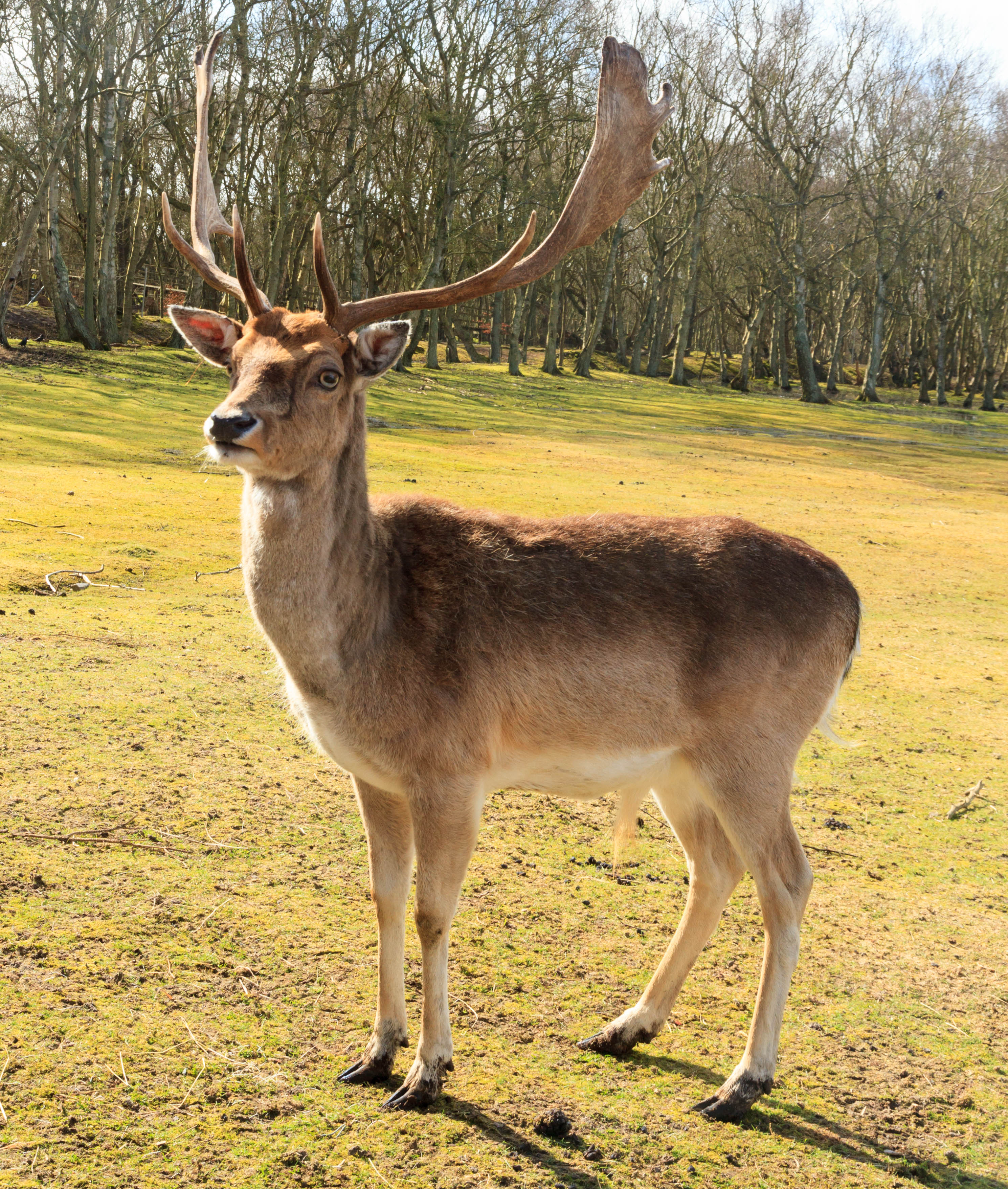 The making of this document was supported by the Community-Budget of Wikimedia Germany. Damwild im Wildgehege der Vogelkoje Meeram